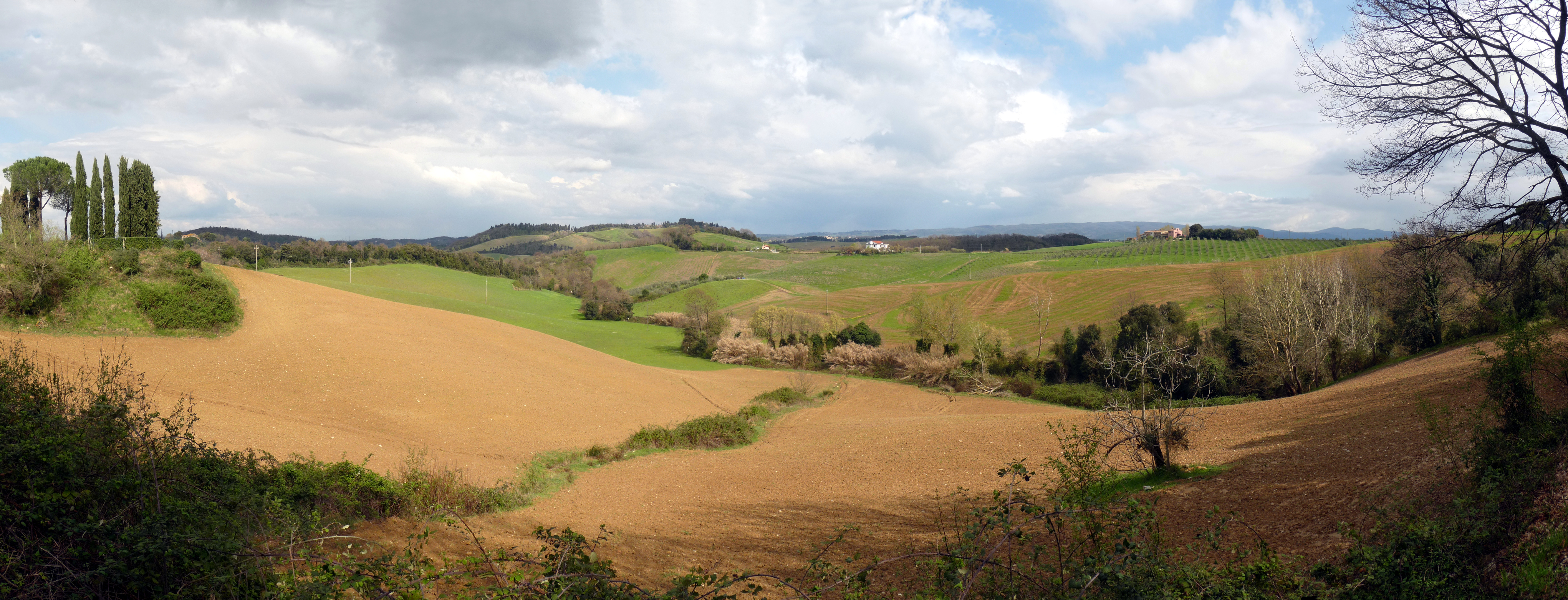 Landscape near Parrana San Martino, Collesalvetti, Province Livorno, Tuscany, Italy